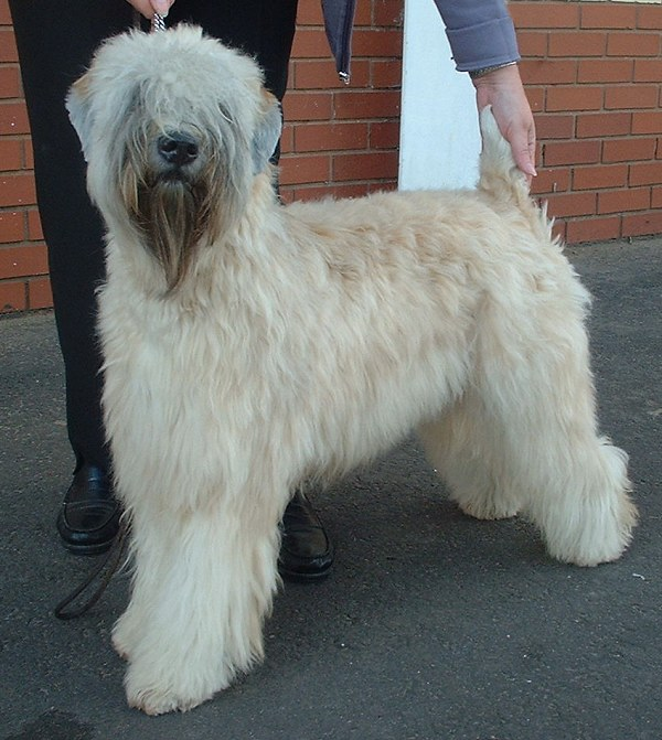 A ten month old Soft Coated Wheaten Terrier at the Championship Dog Show in the City of Birmingham